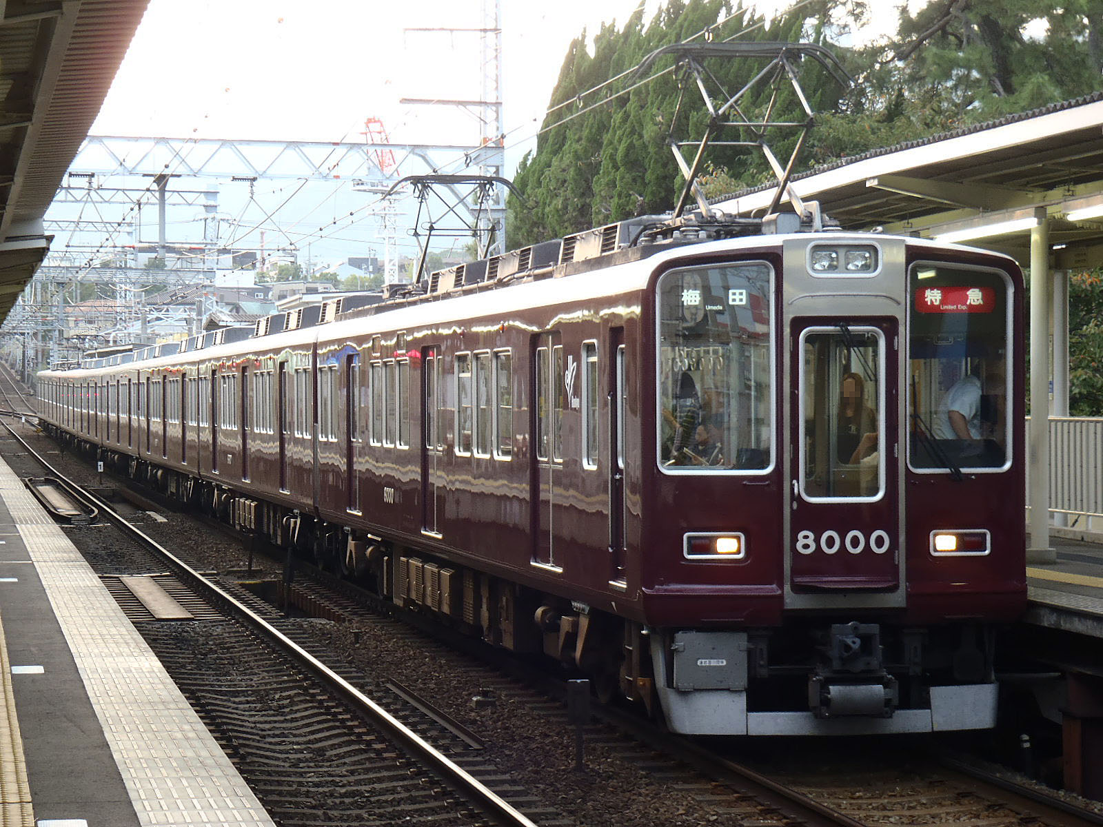 Hankyu Railway 8000 series EMU set 8000 at Shukukawa Station